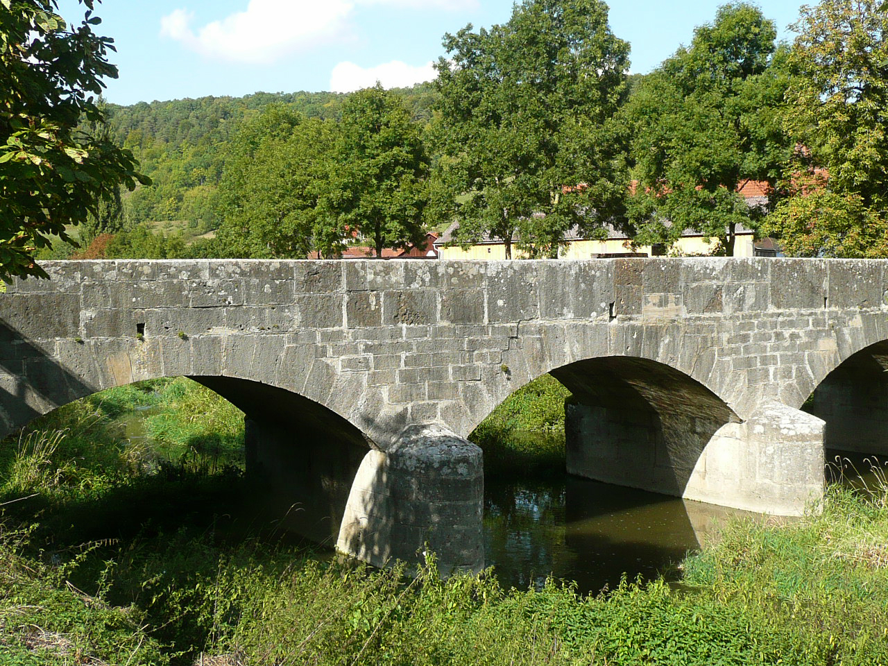 Tauberscheckenbach, the stone bridge on the Tauber